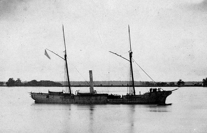 USS Winona (1861-1865) in the Mississippi River off Baton Rouge, Louisiana. Note the identification number "2" painted on her smokestack.